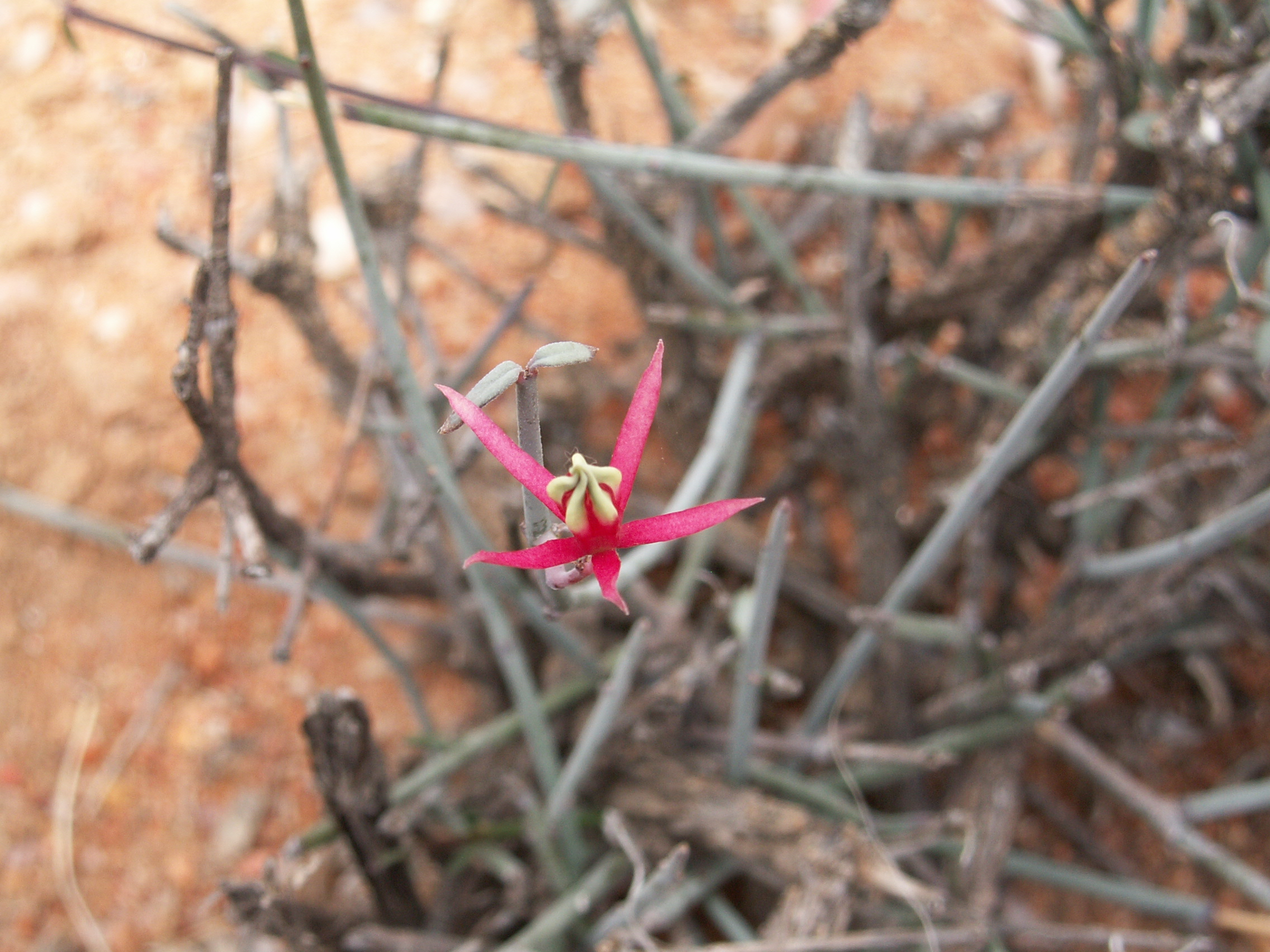 Microloma calycinum E. Mey., Richtersveld National Park, Richtersveld Local Municipality, Namakwa District Municipality, Northern Cape, South Africa